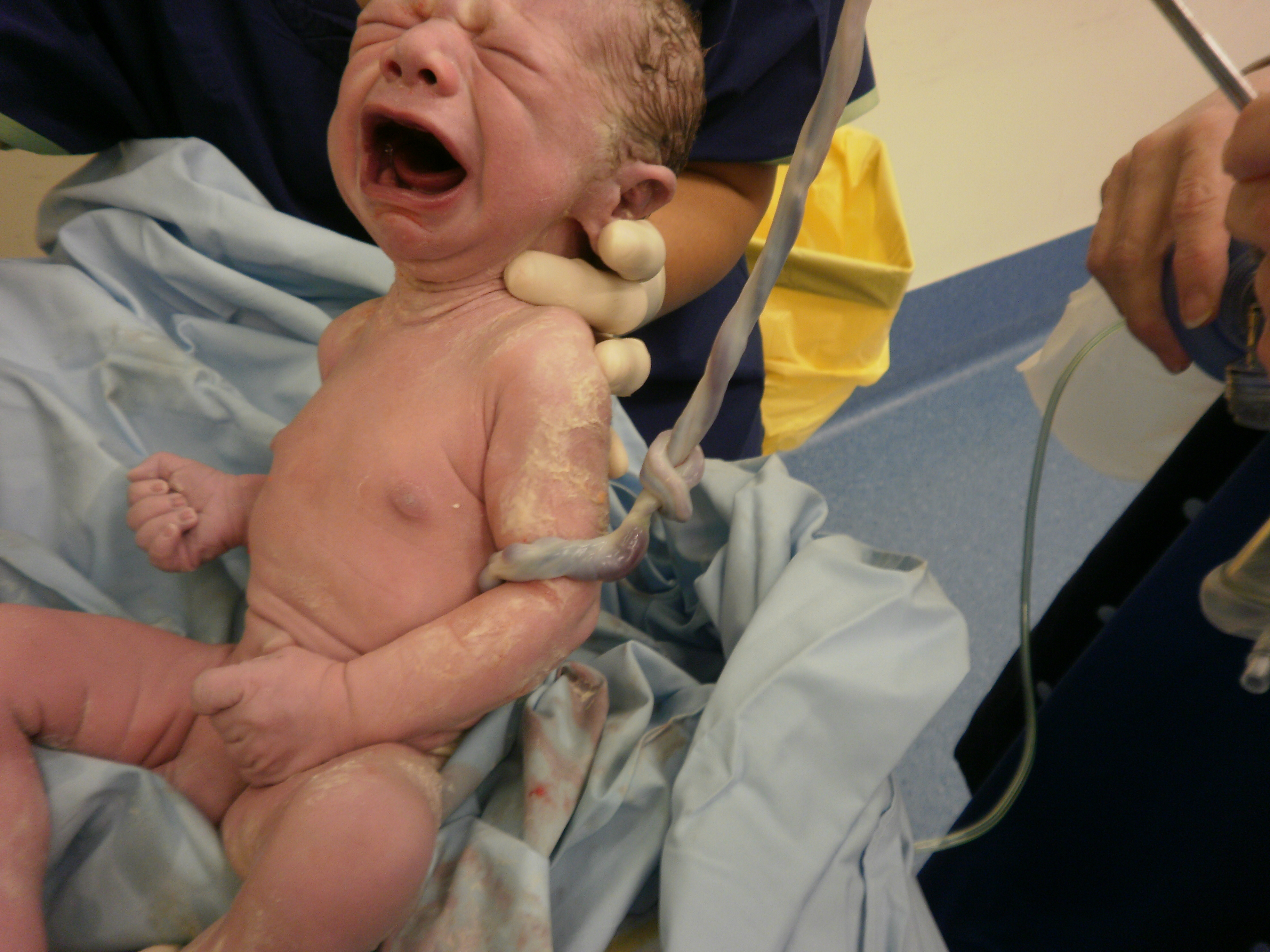 A newly born baby with a knotted umbilical cord.